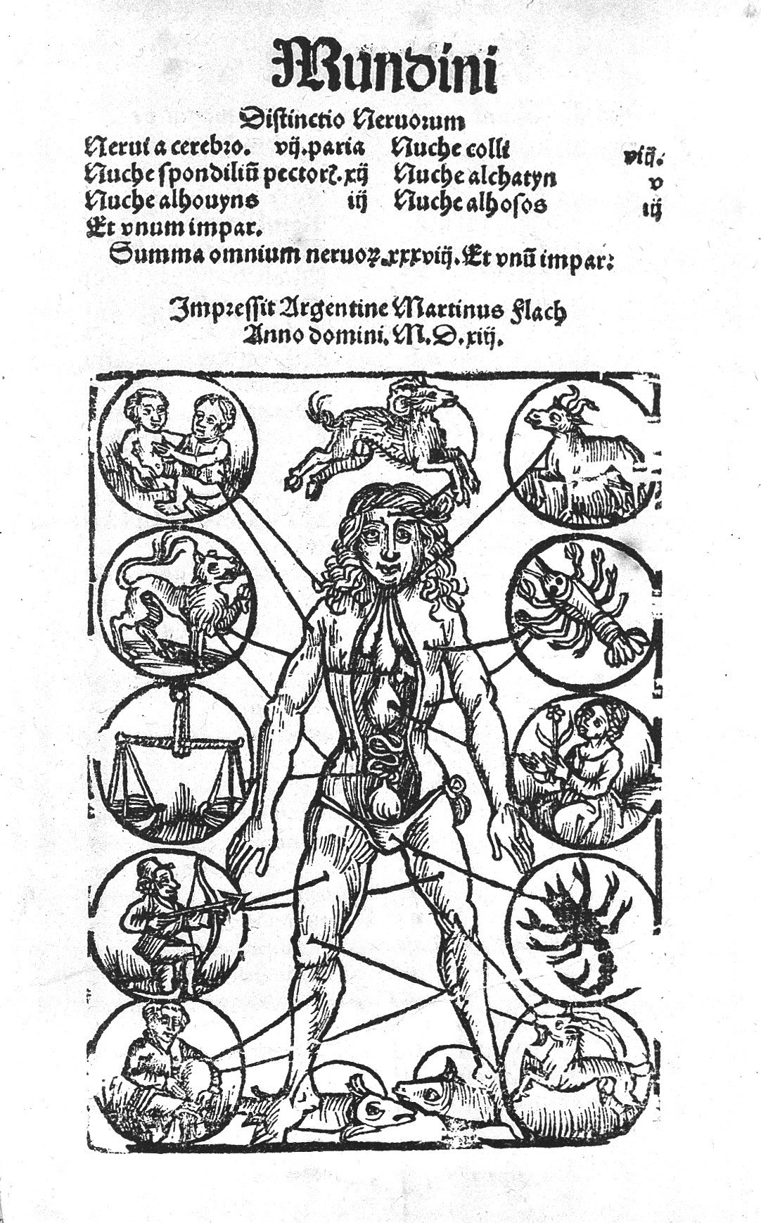 Page from 'De omnibus humani corporis interioribus membris Anathomia' ("Anatomy of all interior parts of the human body"), a text first published in 1316 by Mondino de Liuzzi, although printed editions did not exist until 175 years later. The book is recognised as the first anatomical text and was taken as authoritative until the 16th Century. This page mostly consists of a diagram showing the twelve signs of the Zodiac relating to human body parts, with some lines of Latin text at the top. The Latin text includes a date, "Anno Domini MDxiii" (1513 AD). Rare Books Keywords: Zodiac; Medicine; Astrology